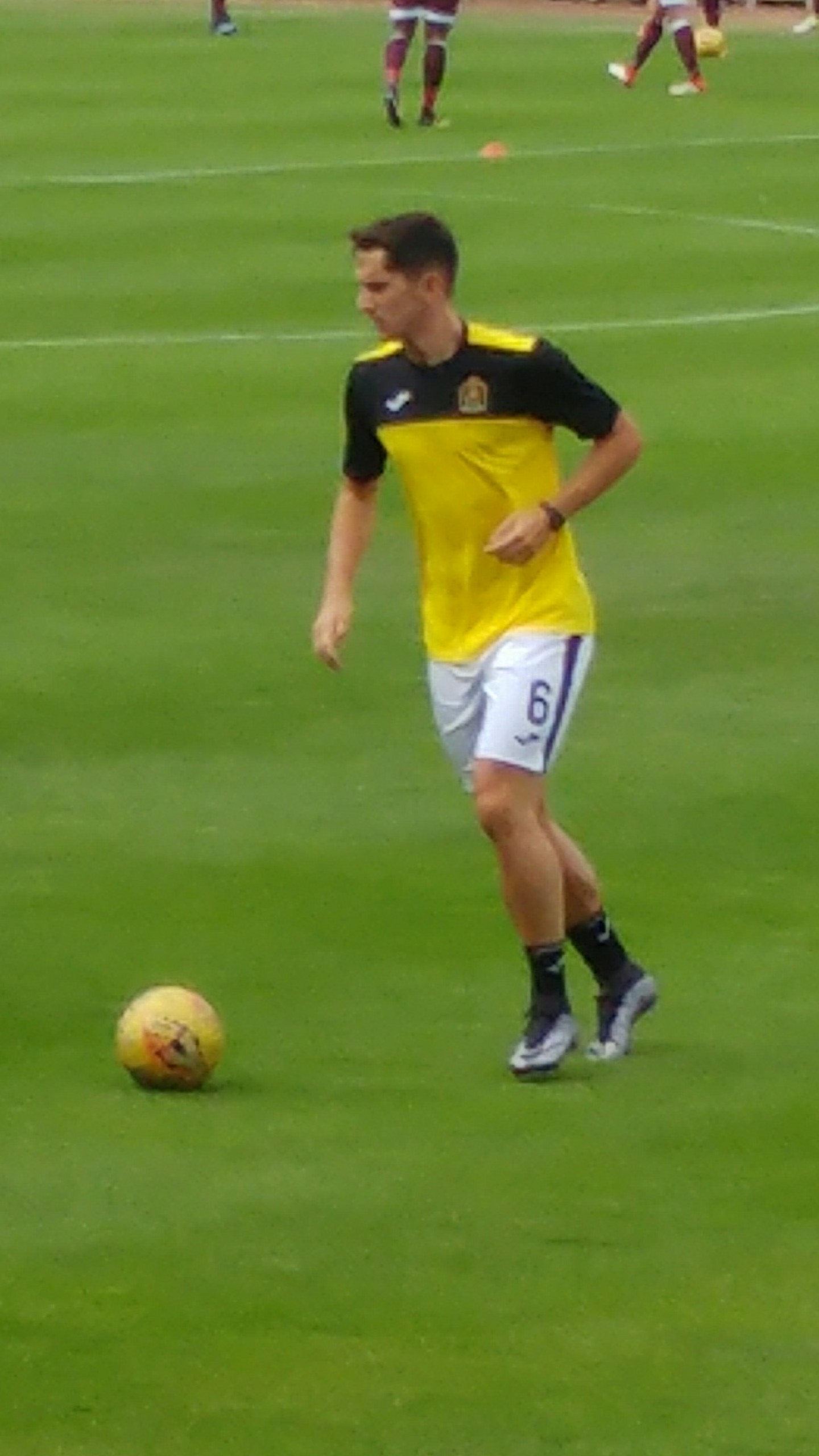 Scottish footballer Stuart Carswell during a warmup for Dumbarton FC